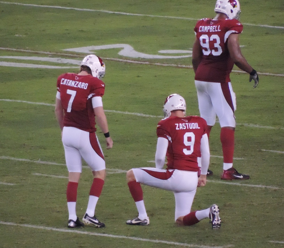 Arizona Cardinals kicker Chandler Catanzaro in week 1 of 2014 season